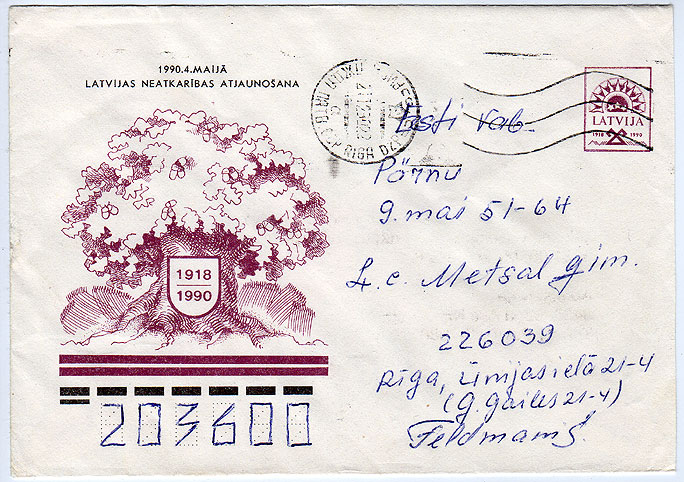 Latvian postal issuance to commemorate the restoration of independence of the Republic of Latvia — a 5 kopeck stationery without face value. Stationery is postally used to Estonia 21 december 1990.